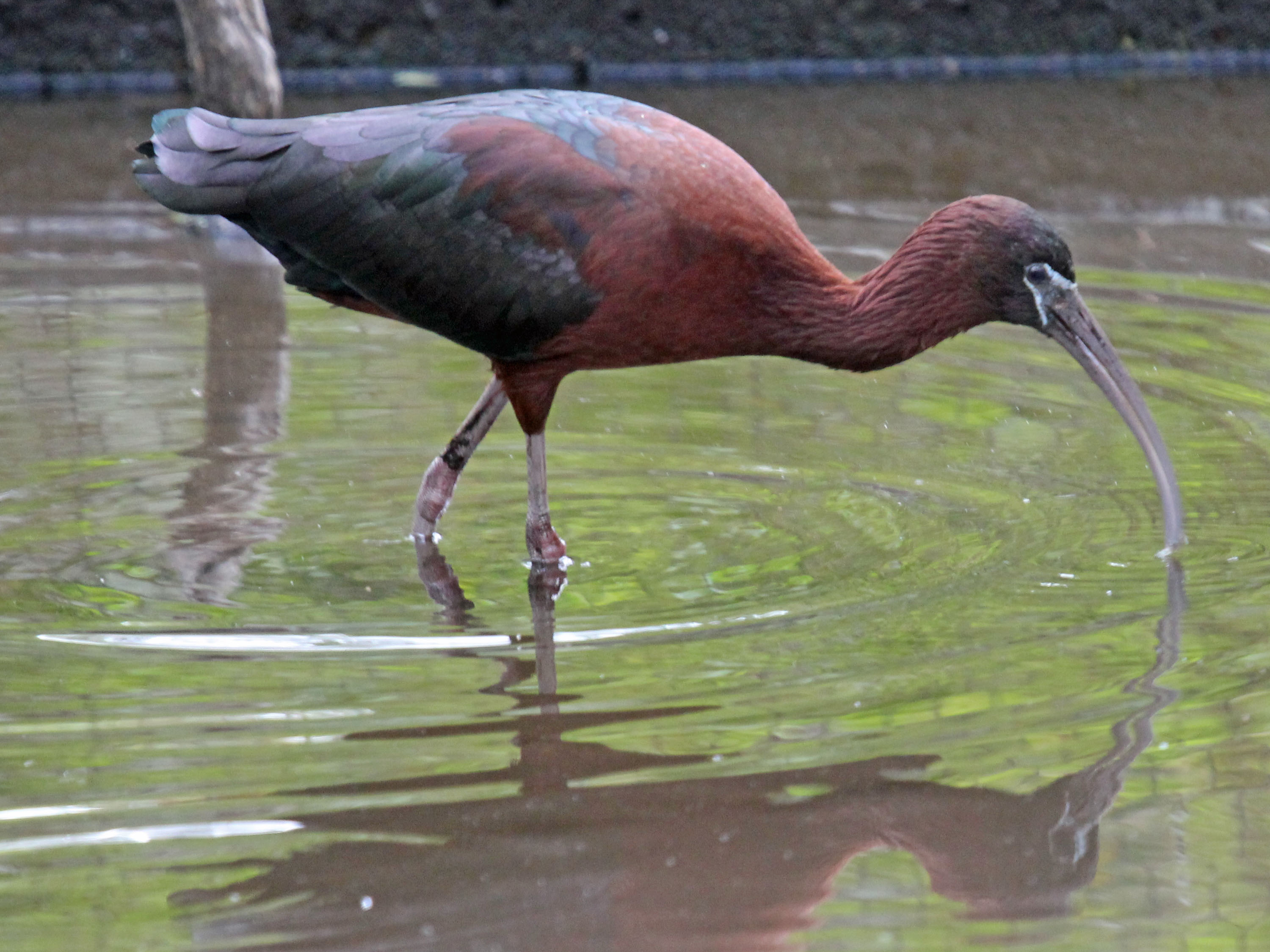 Glossy Ibis (Plegadis falcinellus) at Flamingo Gardens in Florida